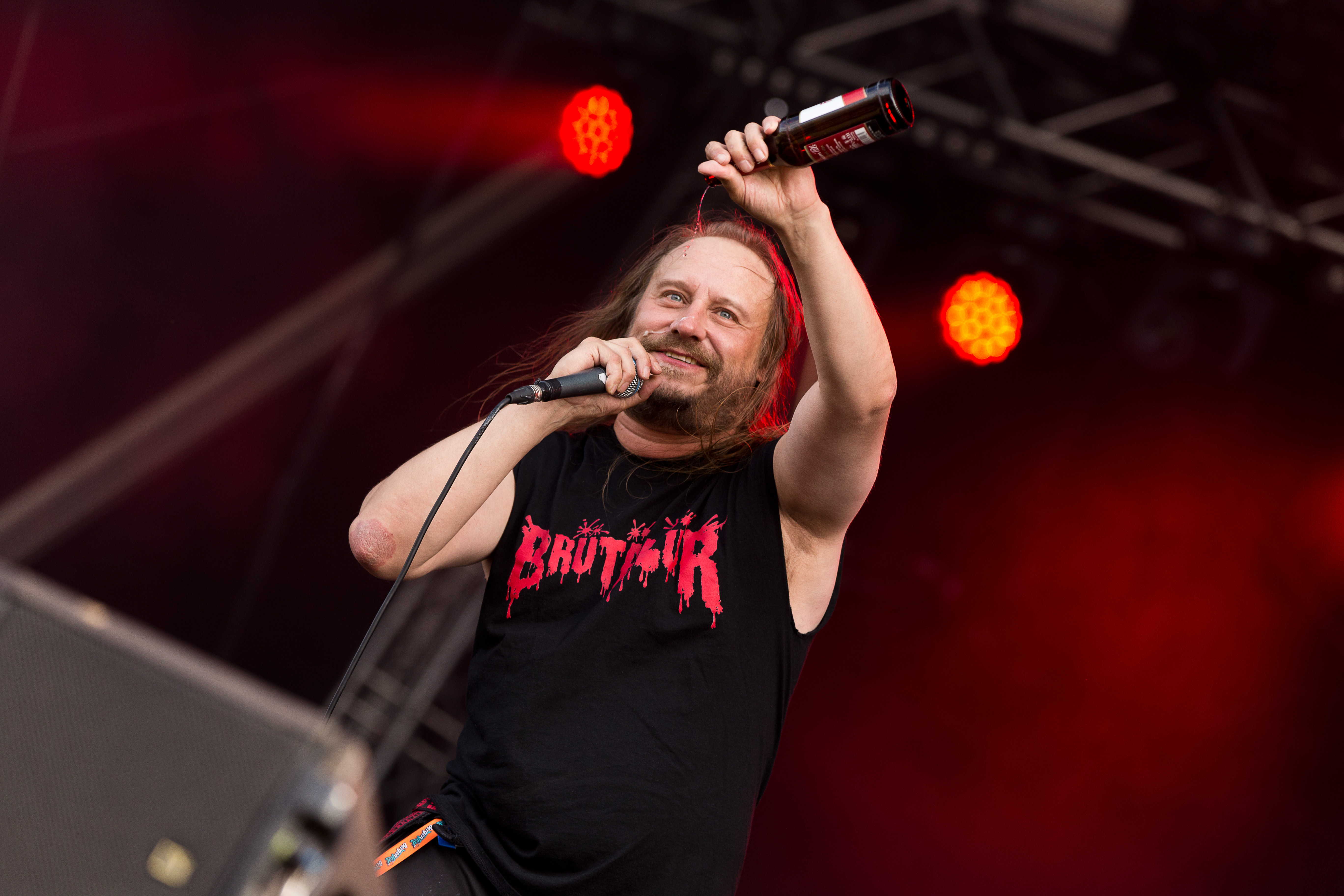 The Swedish death metal band Entombed A.D. at the Rockharz Open Air 2016 in Ballenstedt/Germany.